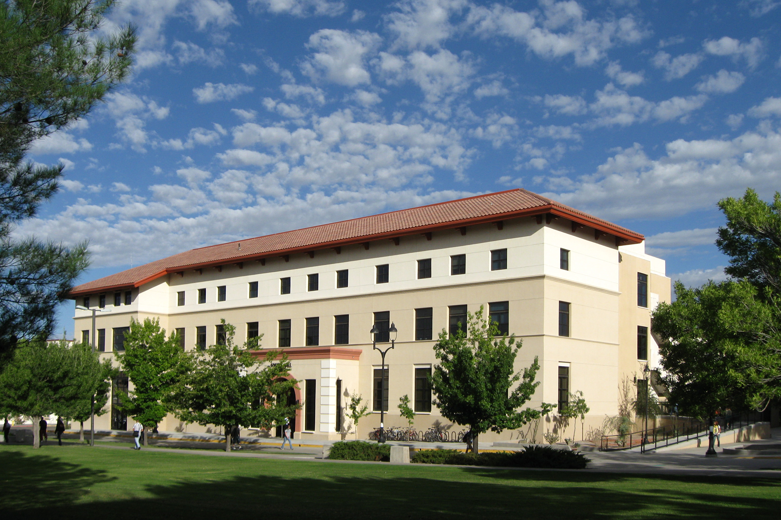 Foster Hall on the Las Cruces campus of New Mexico State University. Listed on the National Register of Historic Places, NRIS Item No. 88001547.